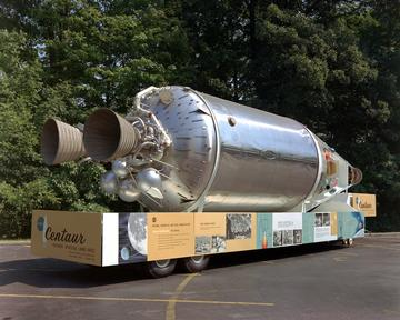 Model of Centaur D rocket stage with surveyor payload CENTAUR CHARTS ON MODEL GRC Number: C-1965-02033 Date Archived: 08/06/1965 Photographer: AL LUKAS Requester: J DAUS NASA image